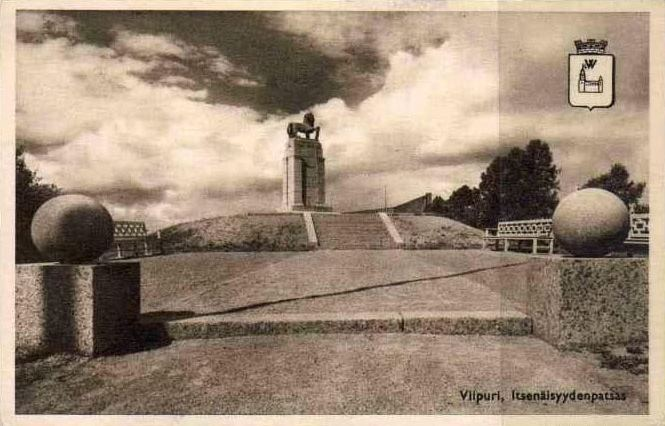 Lion of Independence by Gunnar Finne (1886-1952) in Vyborg.